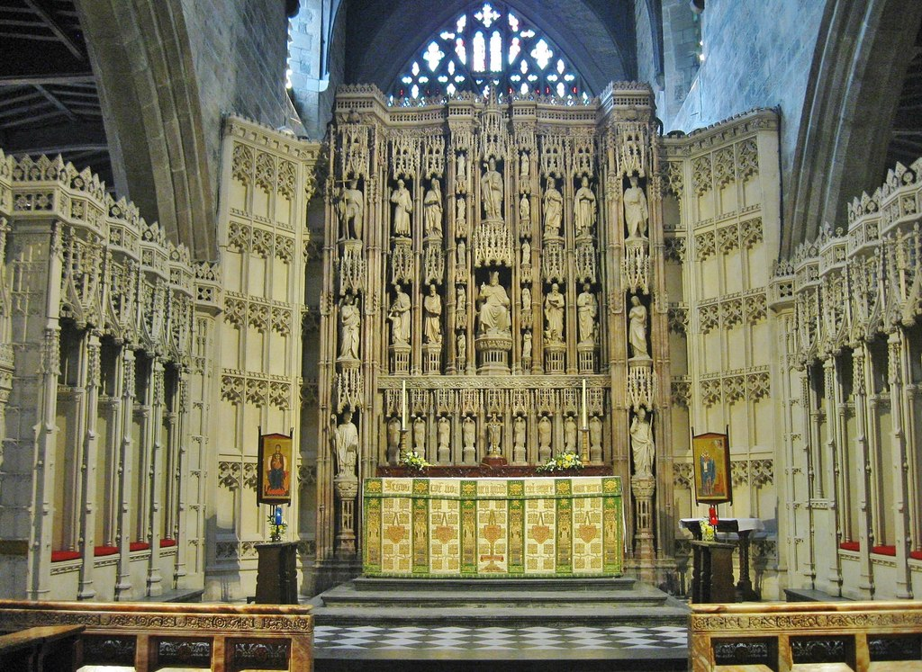 High Altar and Reredos St. Nicholas Cathedral, Newcastle upon Tyne